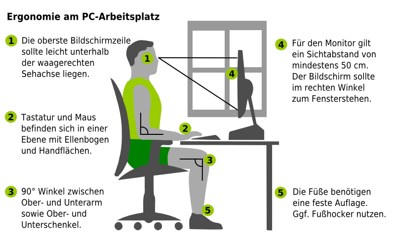 Ergonomic workstation variables